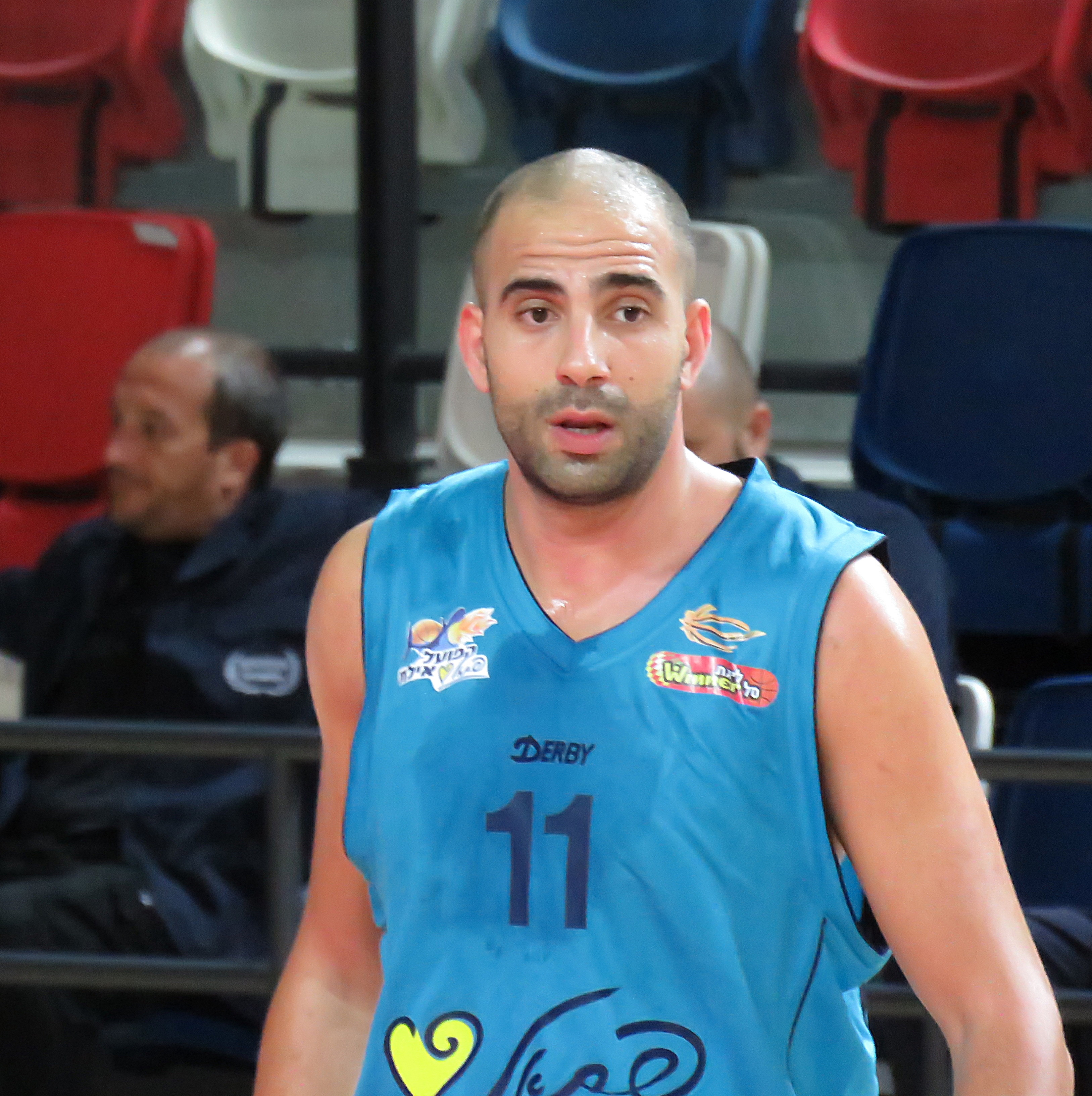 Hapoel Eilat vs. Maccabi Haifa B.C., 25 September, 2015